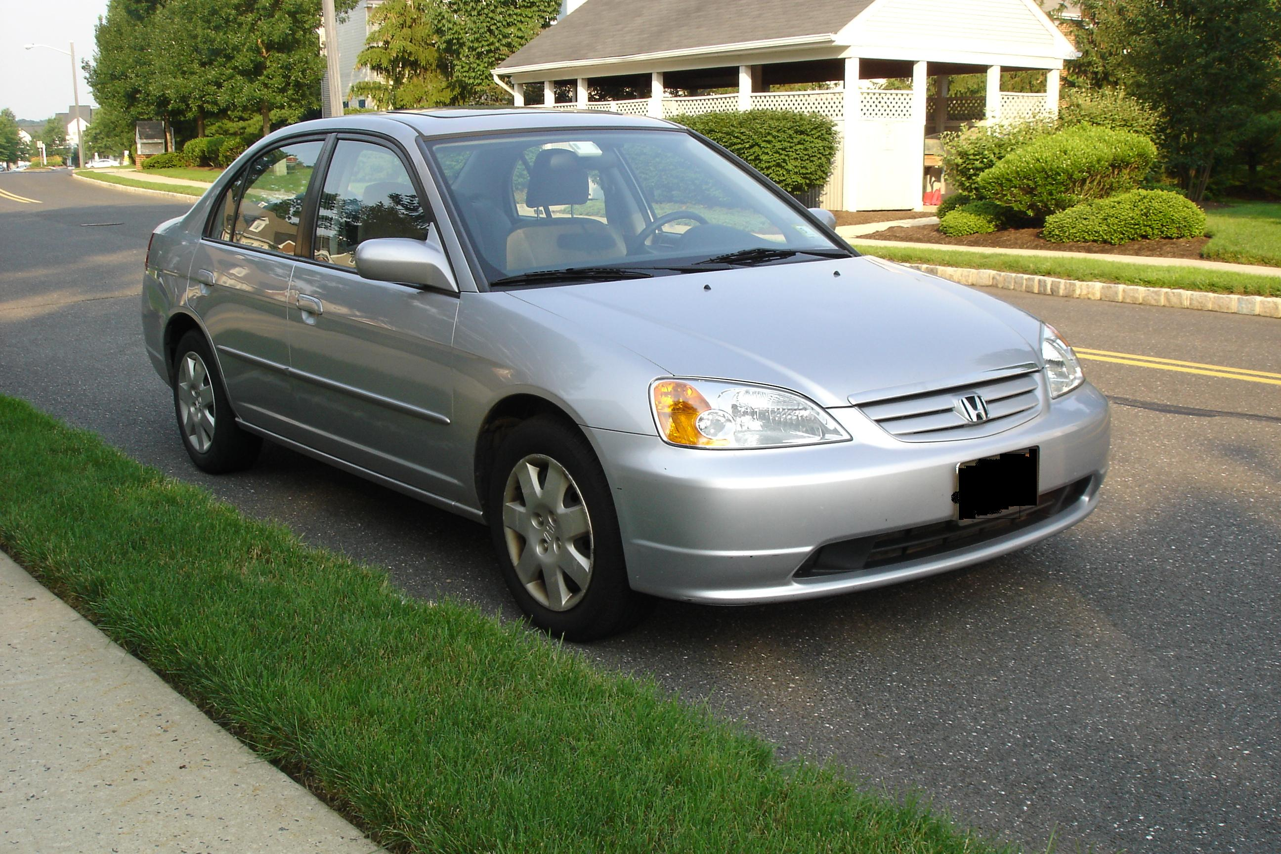 I am the source